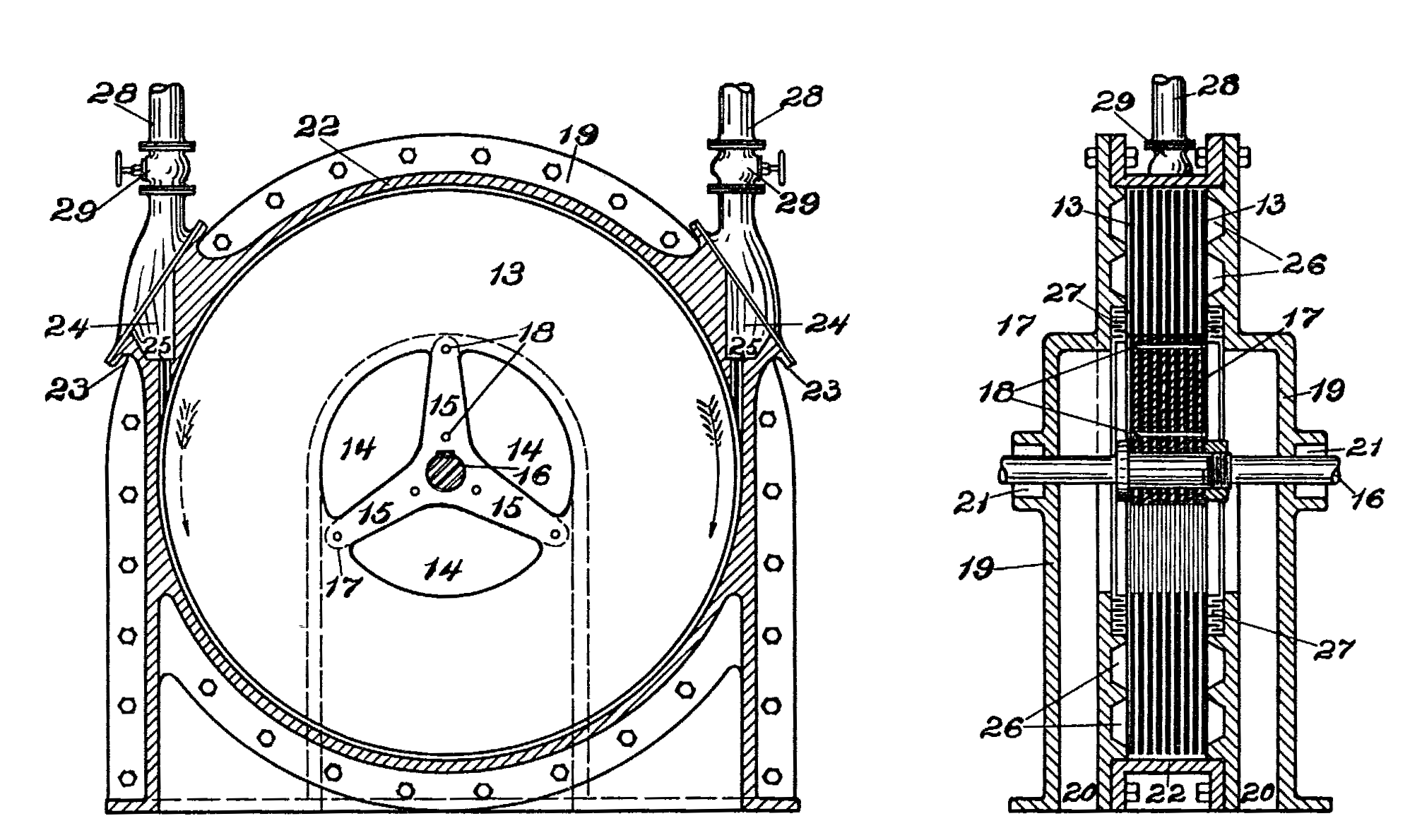 Tesla turbine diagram U.S. Patent 1,061,206 1909 October 21 – Turbine – Improvements in rotary engines and turbines; Mechanical power based the vehicle of fluid for power; Known as the Tesla turbine; Bladeless turbine design; Utilizes boundary layer effect; Fluid does not impact the blades as in a conventional turbine.